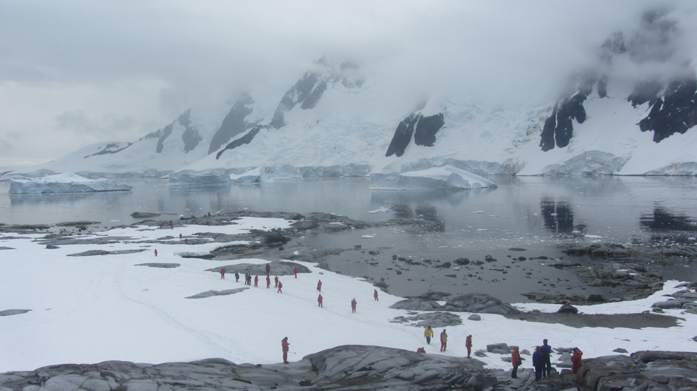 Tourists visit Pleneau Island